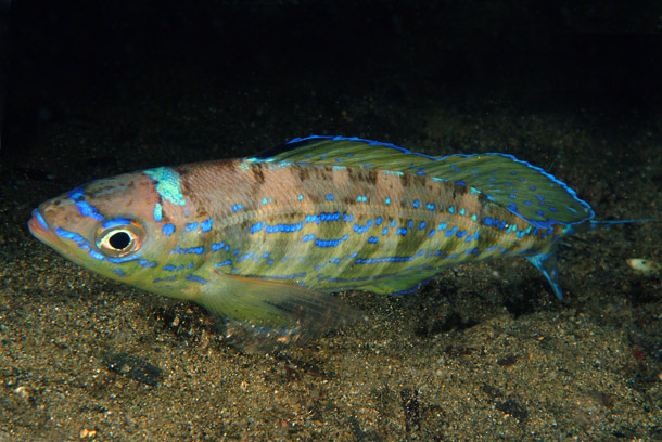 Spicara smaris photographed in Tuscany (Italy). Photo by Stefano Guerrieri.